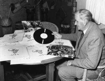 Hugh Tracey in the Old ILAM at Msaho, Roodepoort 1960s